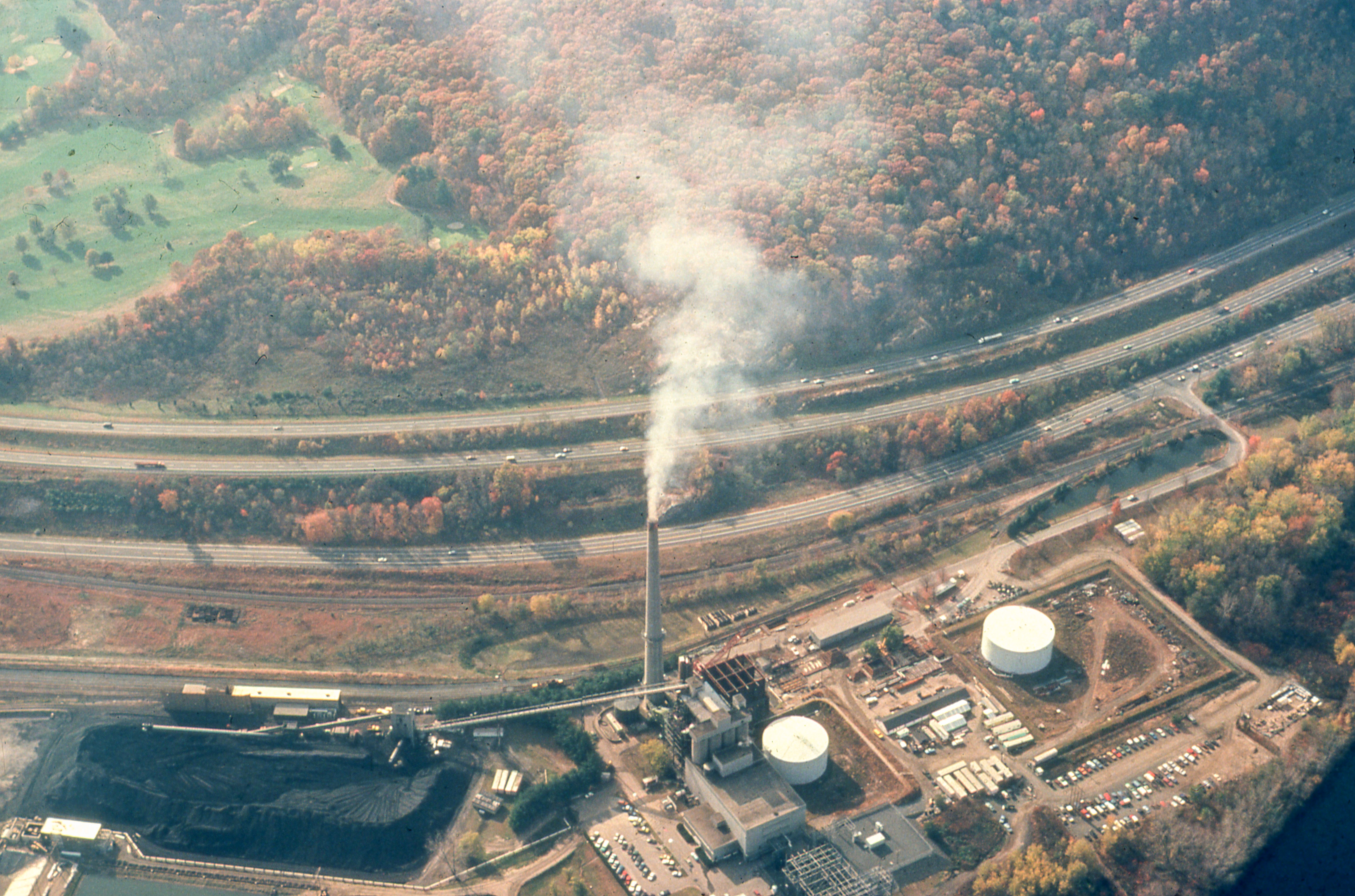 DEQE & USEPA - scanned 35 mm slides from box labeled "Groundwater (1) - November 1982 - Mt. Tom Power Plant, Holyoke, MA